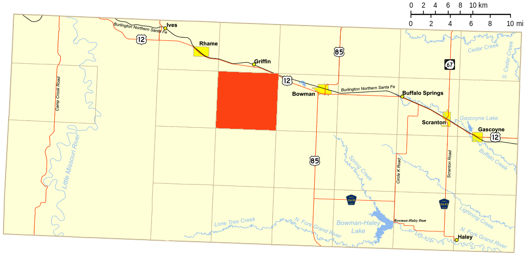 Map of Bowman County, ND, with Hart UT highlighted